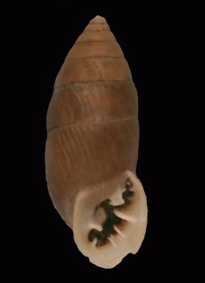 ZooKeys - Plagiodontes rocae Cut-out from original (Plagiodontes and Spixia species in mollusc collection in Museum für Naturkunde Berlin - ZooKeys-279-001-g032.jpg) shown below